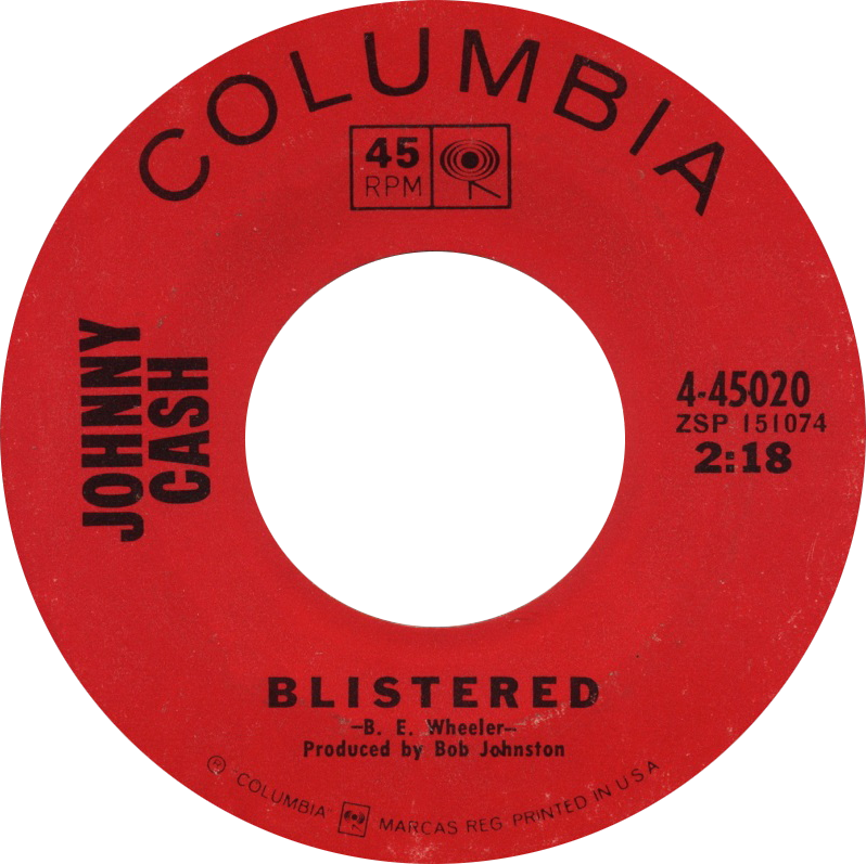 Side-A label of the US single release of "Blistered" by Johnny Cash